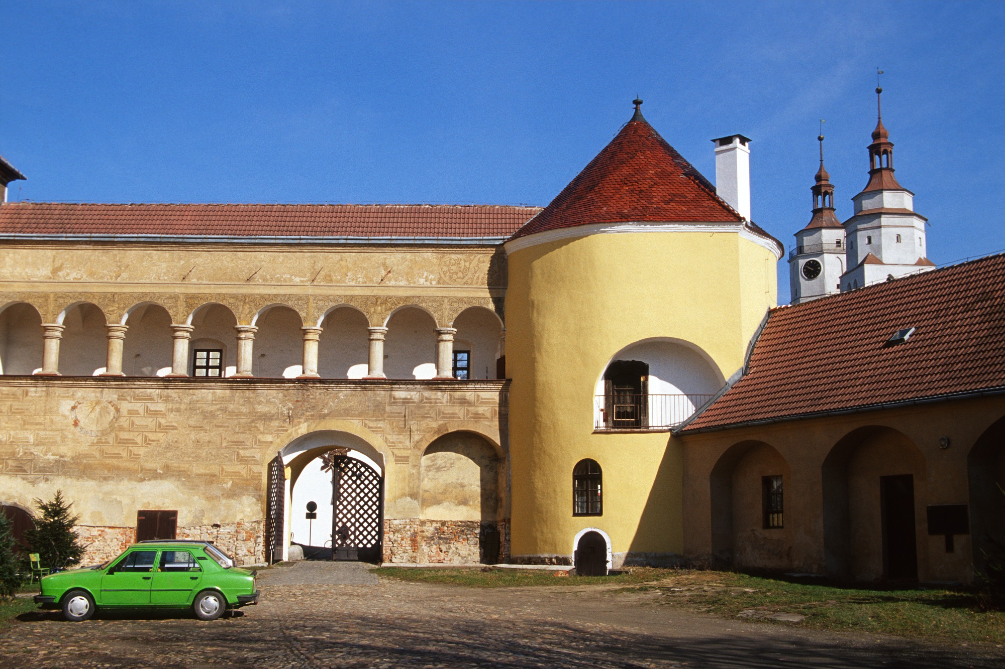 Courtyard of Krnov castle, before restoration